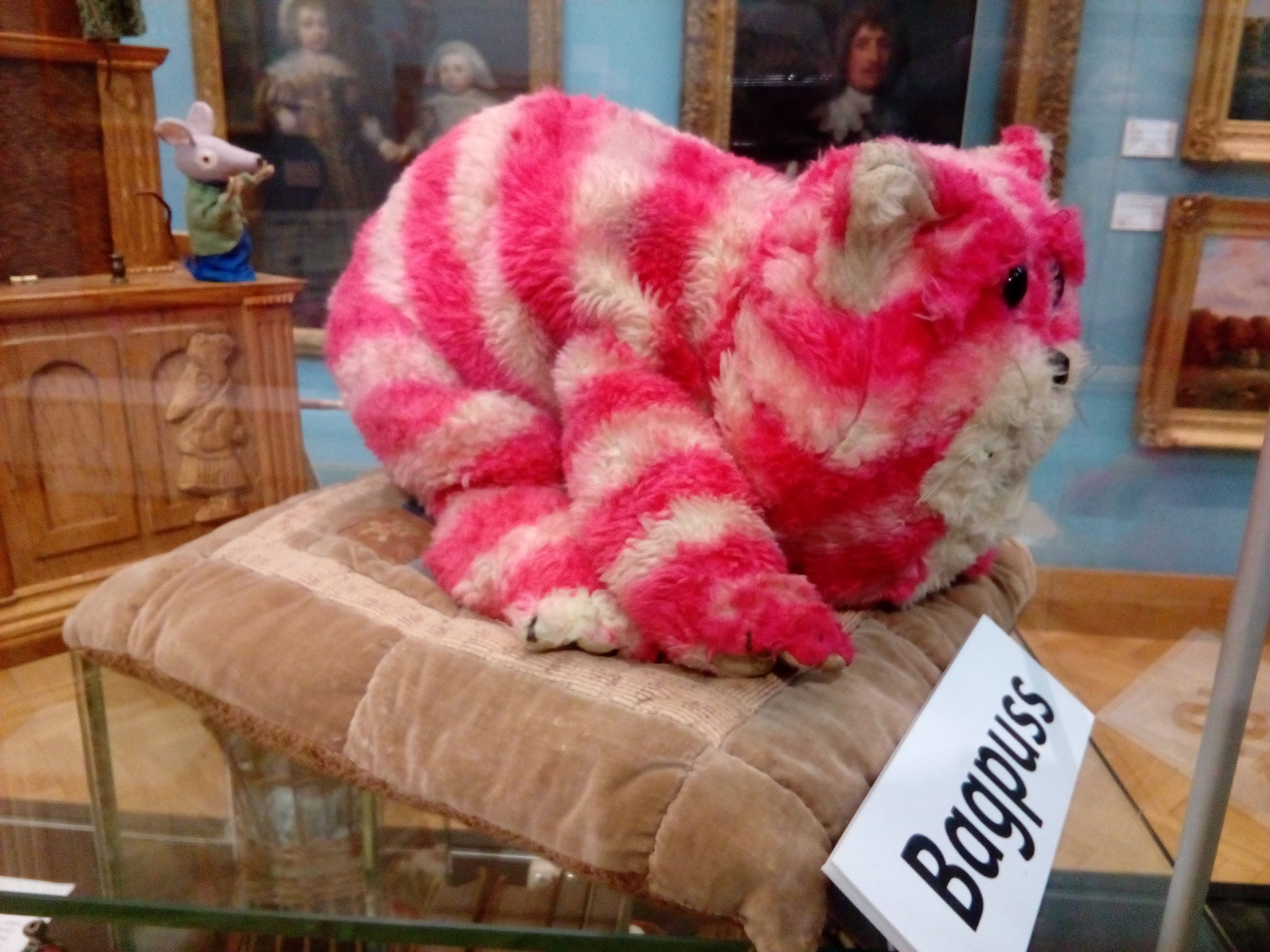 The Original Bagpuss in the Beany House of art and knowledge in Canterbury